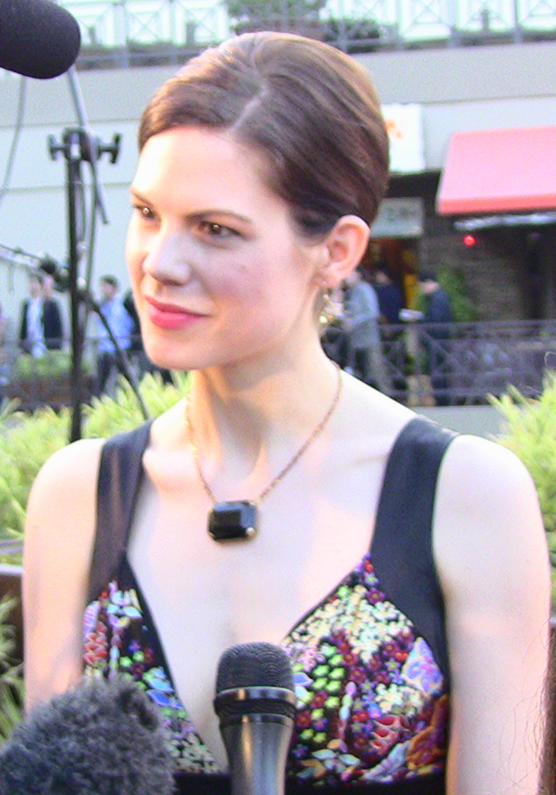 Mariana Klaveno by Mingle Media TV